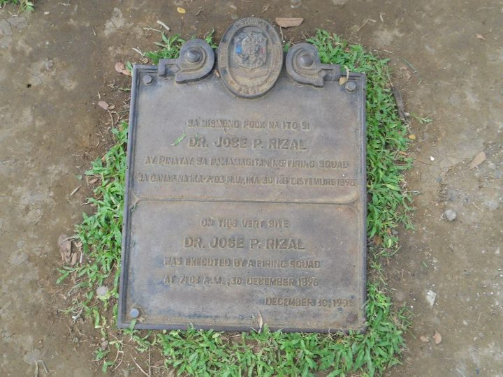 José Rizal execution site